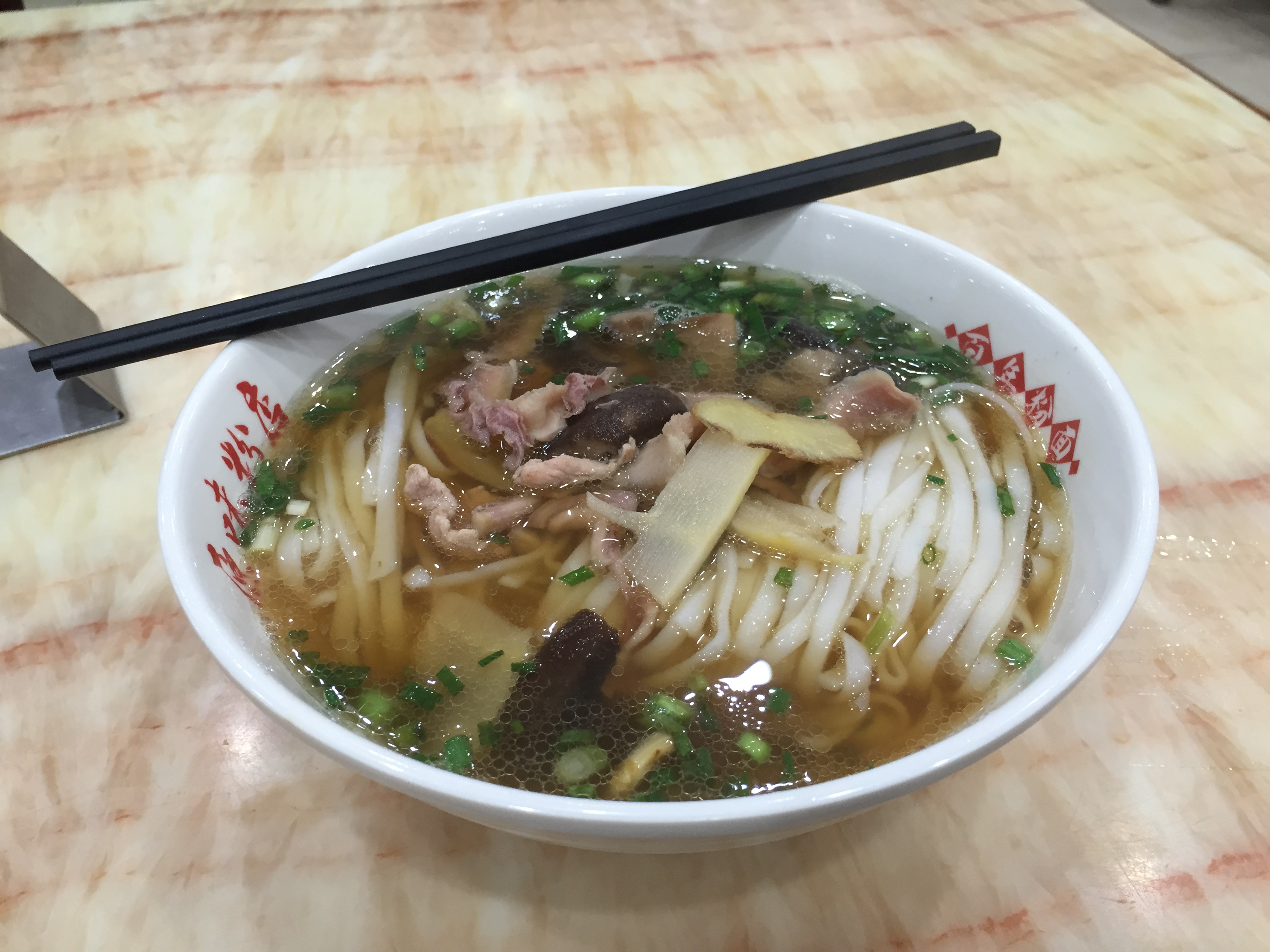 Eaten at a restaurant named Authentic Taste near Changsha Railway Station for 12.